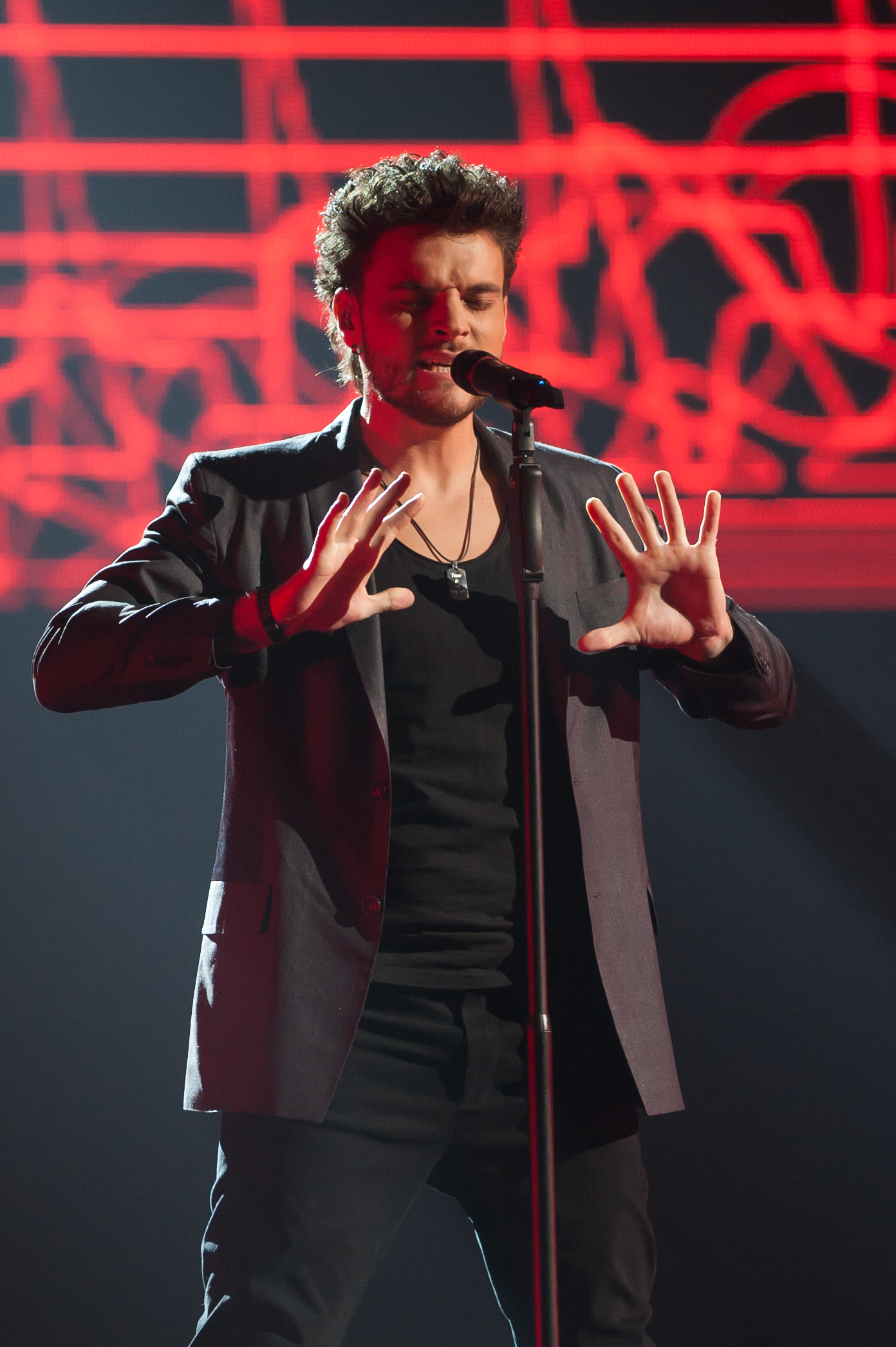 Eurovision Song Contest Vienna 2015: Uzari & Maimuna, Belarus